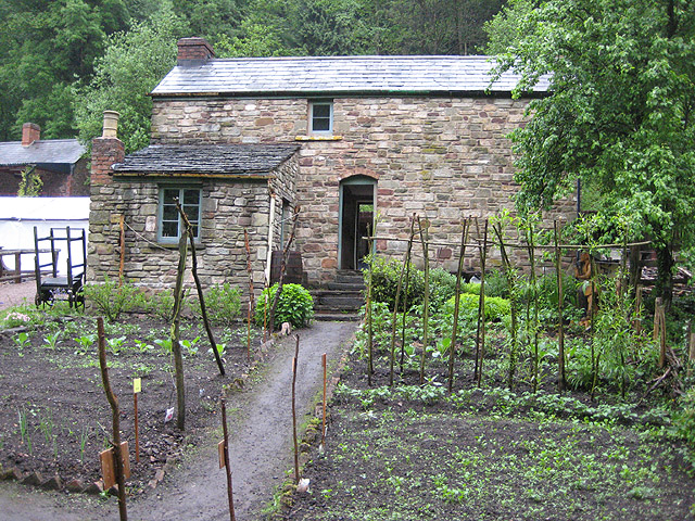 Rear view of a reconstructed forester's cottage At the Dean Heritage Centre is a two up, two down cottage with washhouse at the back. This shows the cottage garden and shows how the forest dwellers lived on seasonal fruit and vegetables. There is a pigsty nearby, a chicken run and rabbit pen.